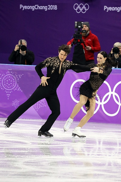 Tessa Virtue and Scott Moir at the 2018 Winter Olympic Games in PyeongChang